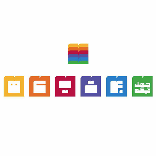 Cheheltike3